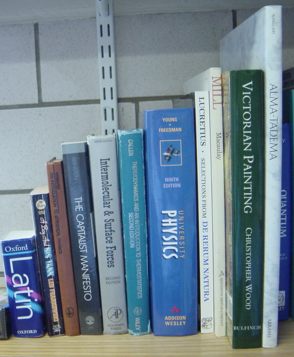 Profile of various books on shelf; Books sizes from right to left (height x depth given in cm): 36.2x27.3, 29.7x26.0, 30.5x23, 28.0x21.5, 26.2x20.7, 24.0x16.7, 23.5x15.8, 22.8x15.0, 20.6x13.1, 17.0x10.5, 11.9x8.0